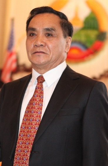 Laotian Prime Minister Thongsing Thammavong, Vientiane, Laos, on July 11, 2012.